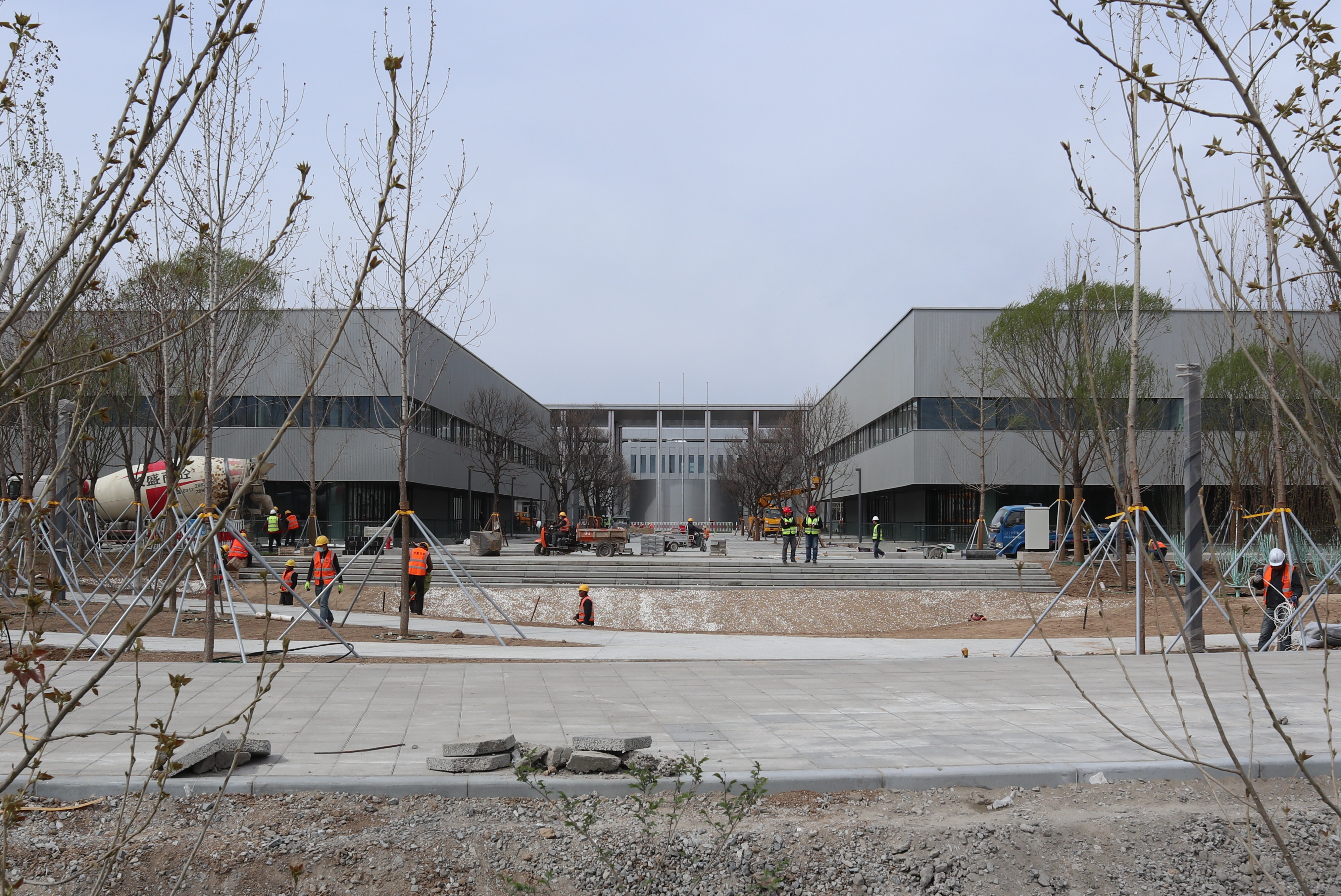 Xiong'an Citizen Service Center, the main building is finished and surrounding facilities are still under construction.